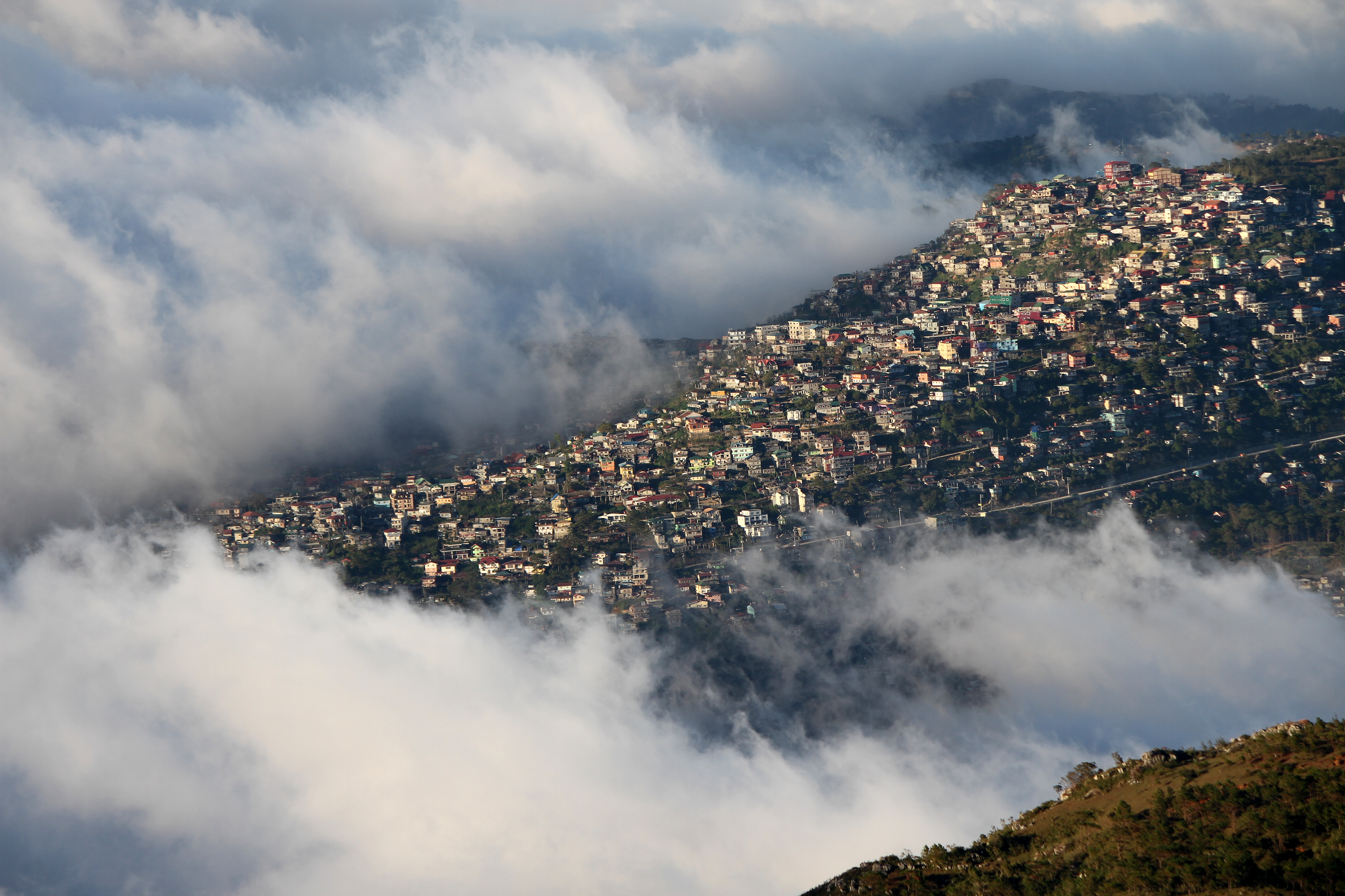 Overwhelming view of Baguio City as seen from mount Kabuyao.